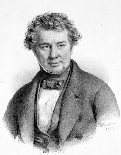 German conductor, organist, and composer Christian August Pohlenz (1790-1843).